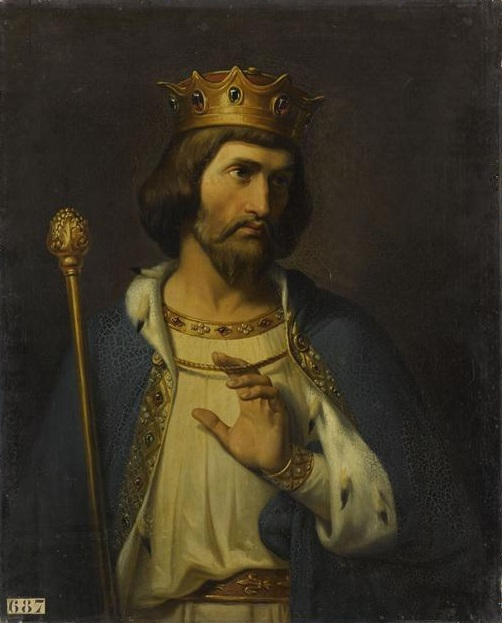 This painting belongs to the Portraits of Kings of France, a series of portraits commissioned between 1837 and 1838 by Louis Philippe I and painted by various artists for the Musée historique de Versailles.